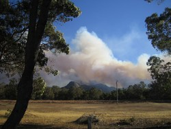 Porongurup National Park, Western Australia. View of Porongurup fire, several hours after the fire took hold - looking towards the range from Mt. barker Road. Photo by George Alexander